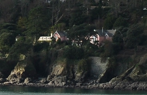 Moult House, close tot South Sands, Salcombe. Used as "End House" in "Peril at End House".